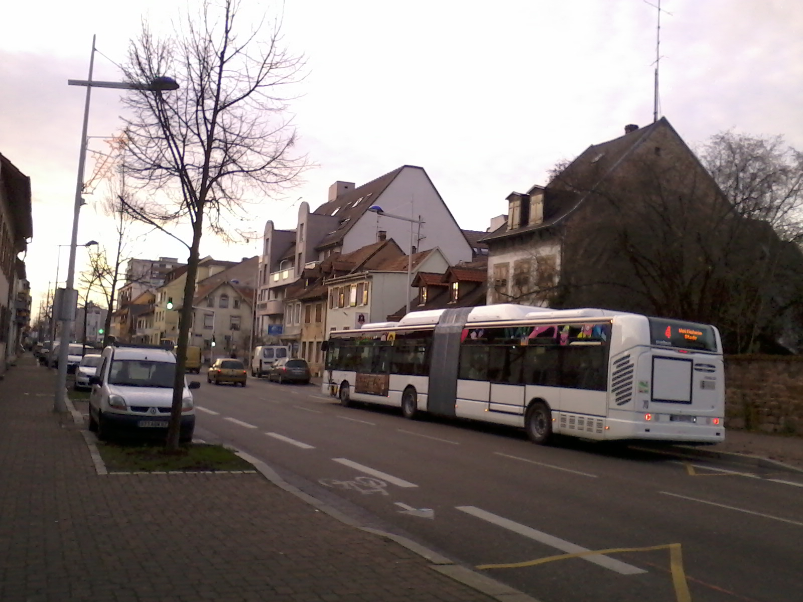 Route des Romains is the main way in the neighbourhood.